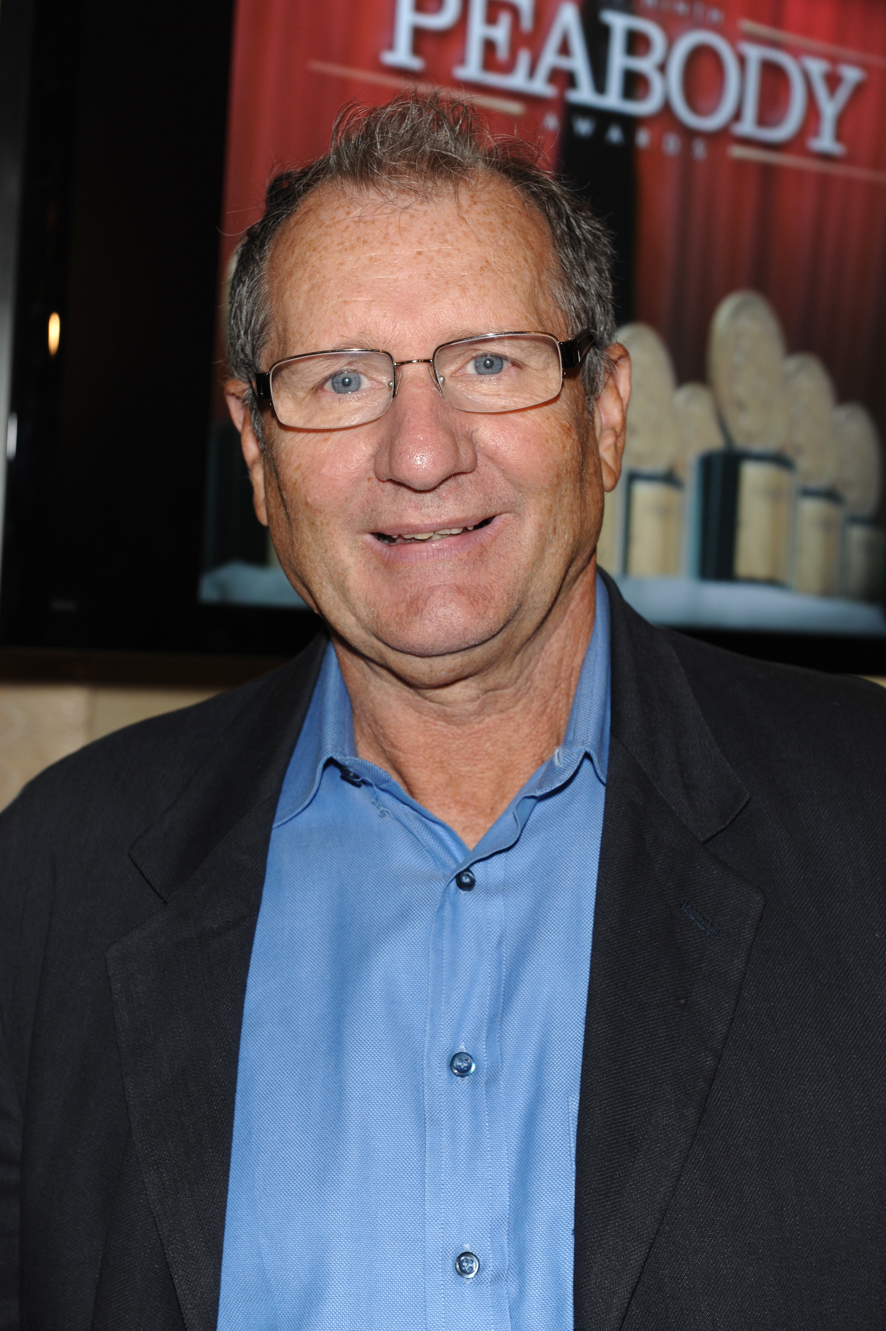 Ed O'Neill at the 69th Annual Peabody Awards Luncheon, on May 17, 2010.